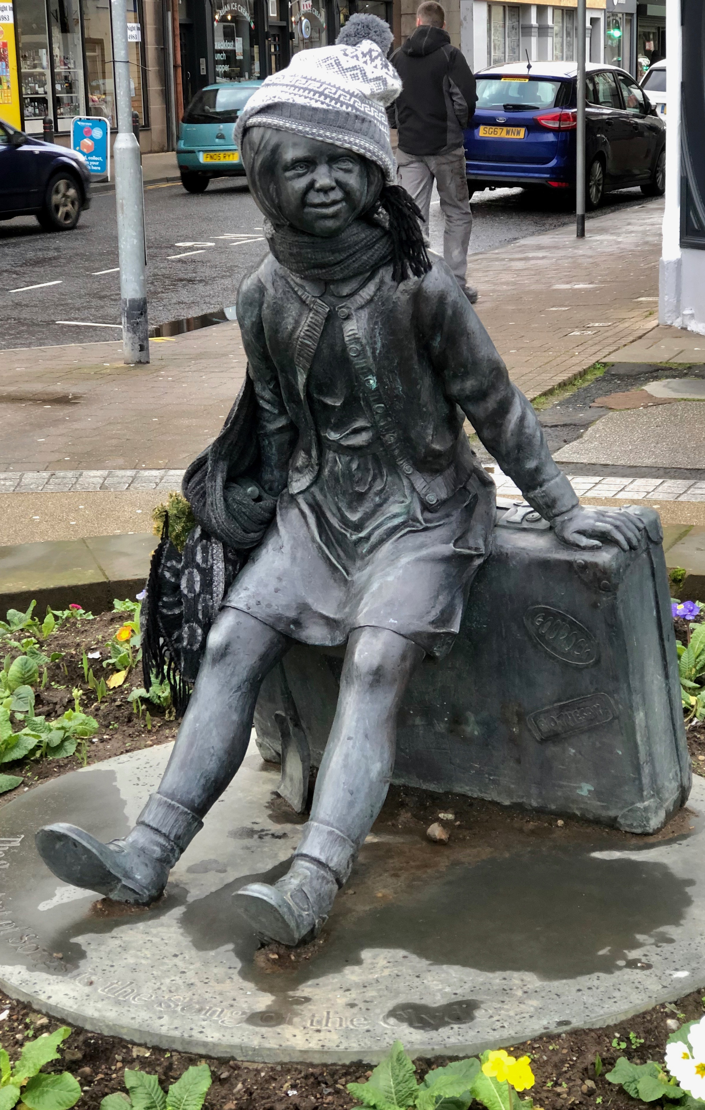 "Wee Annie", a sculpture at the north end of Gourock's Kempock Street, commemorates the town's past as a seaside resort, and its pier as a setting-off point for Clyde steamers taking holidaymakers down the Firth of Clyde. The statue, also known as "Girl on a Suitcase", was created by Angela Hunter as part of a public art project commissioned by Riverside Inverclyde in 2011. It has become a local tradition to keep Wee Annie warm with a scarf and woollen hat.